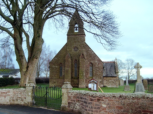 St. Mary's Church, Hethersgill. Built in 1876 as a daughter church to St. Cuthbert's, Kirklinton 339561. A very informative profile of the parish (Kirklinton with Hethersgill) may be found here